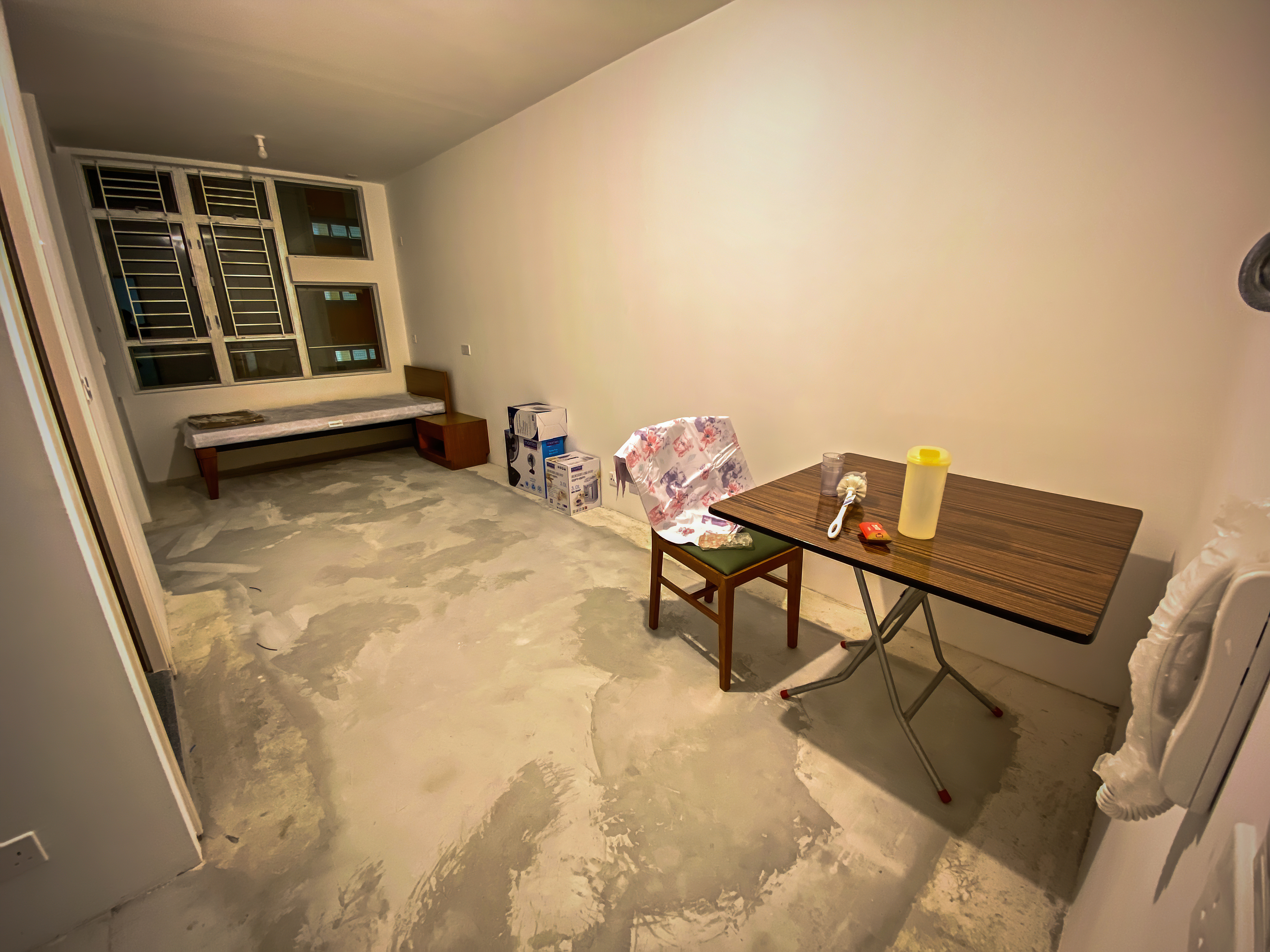 While Hong Kong Gov denies the intention of turning Fai Ming Estate into #WuhanPneumonia quarantine camp, journalists entered one of the units and found it fully furnished with simple furnitures and home appliances Studio Incendo